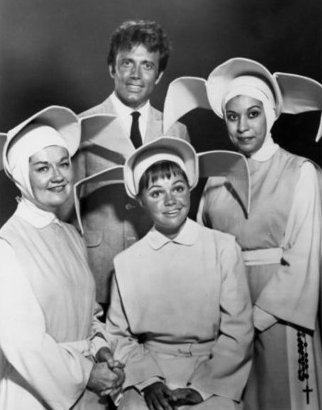 Publicity photo of the cast from the television program The Flying Nun. Pictured from left-back: Alejandro Rey, Shelley Morrison. Front: Marge Redmond, Sally Field.